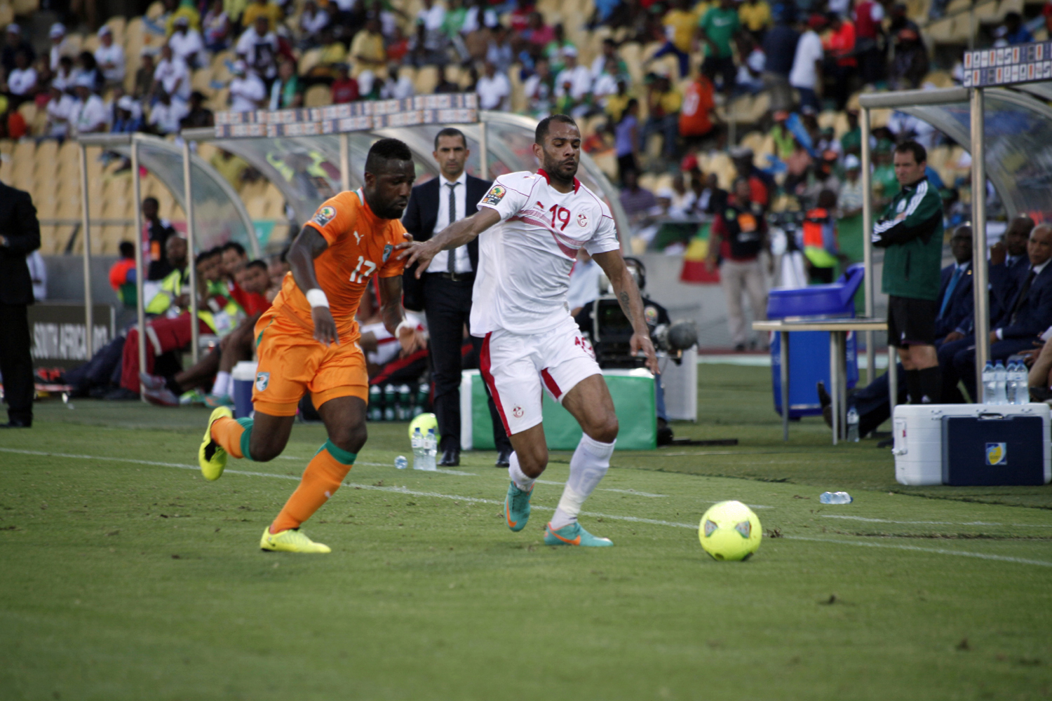 Even though Cote d'Ivoire beat Tunisia on January 26, the Carthage Eagles have one more chance to reach the next round at CAN.